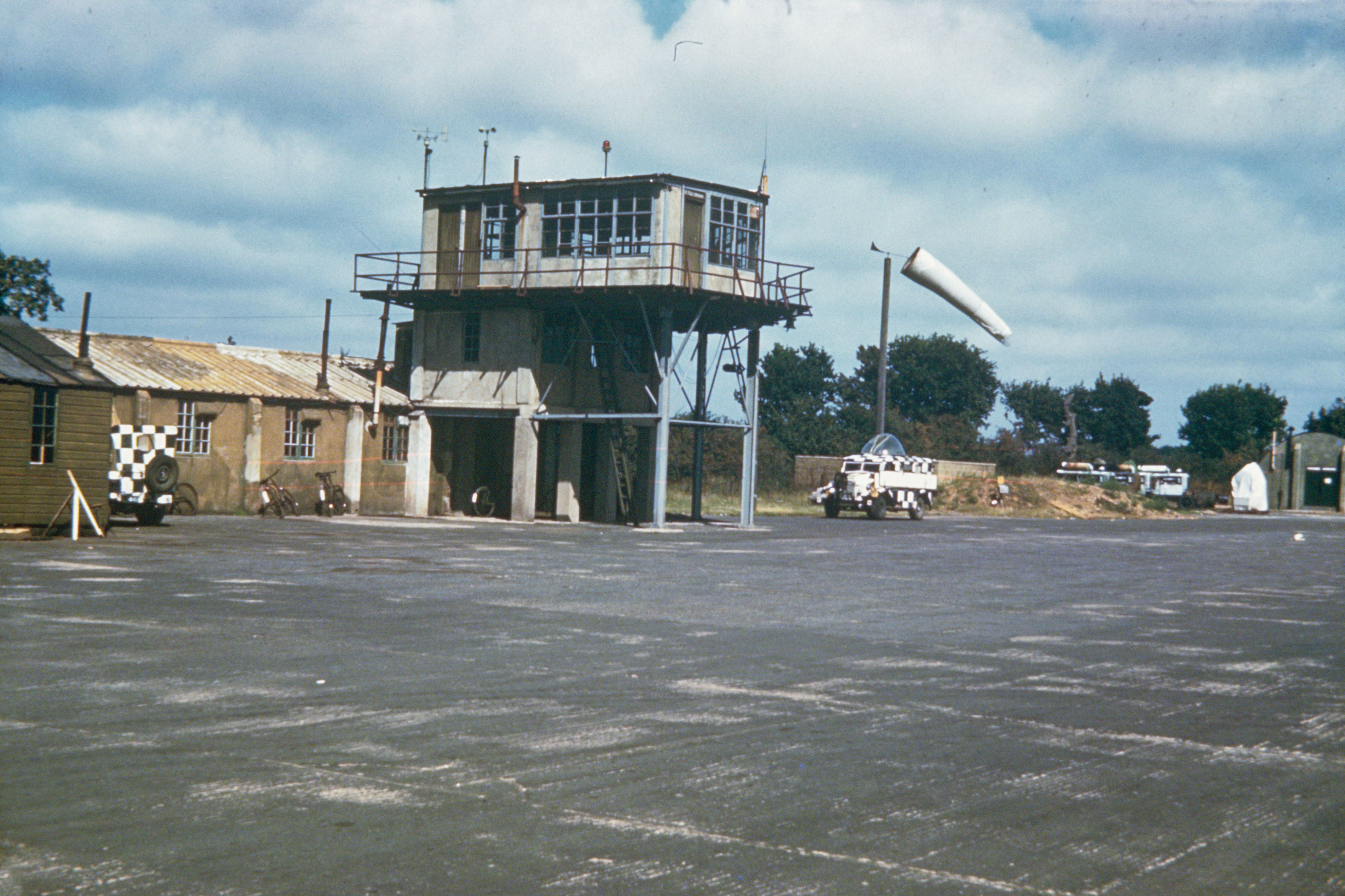 The Control Tower of the 359th Fighter Group at East Wretham. Caption on reverse: 'Caption on reverse: '359th FG Photos